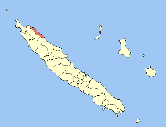 Created map myself.